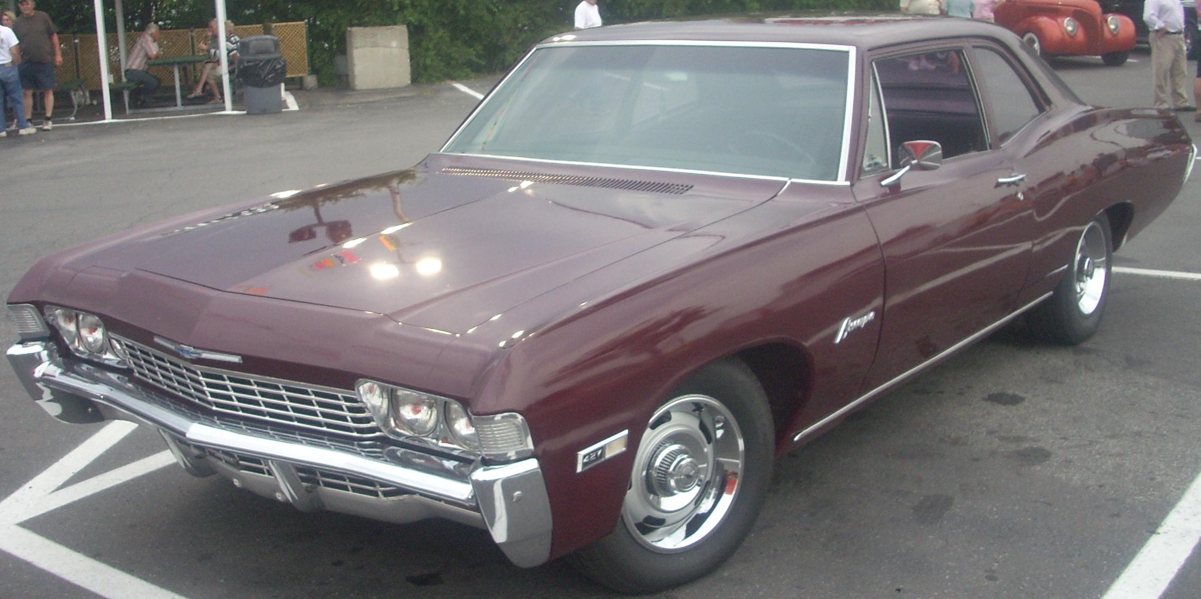 Chevrolet Biscayne photographed in Montreal, Quebec, Canada at Gibeau Orange Julep.